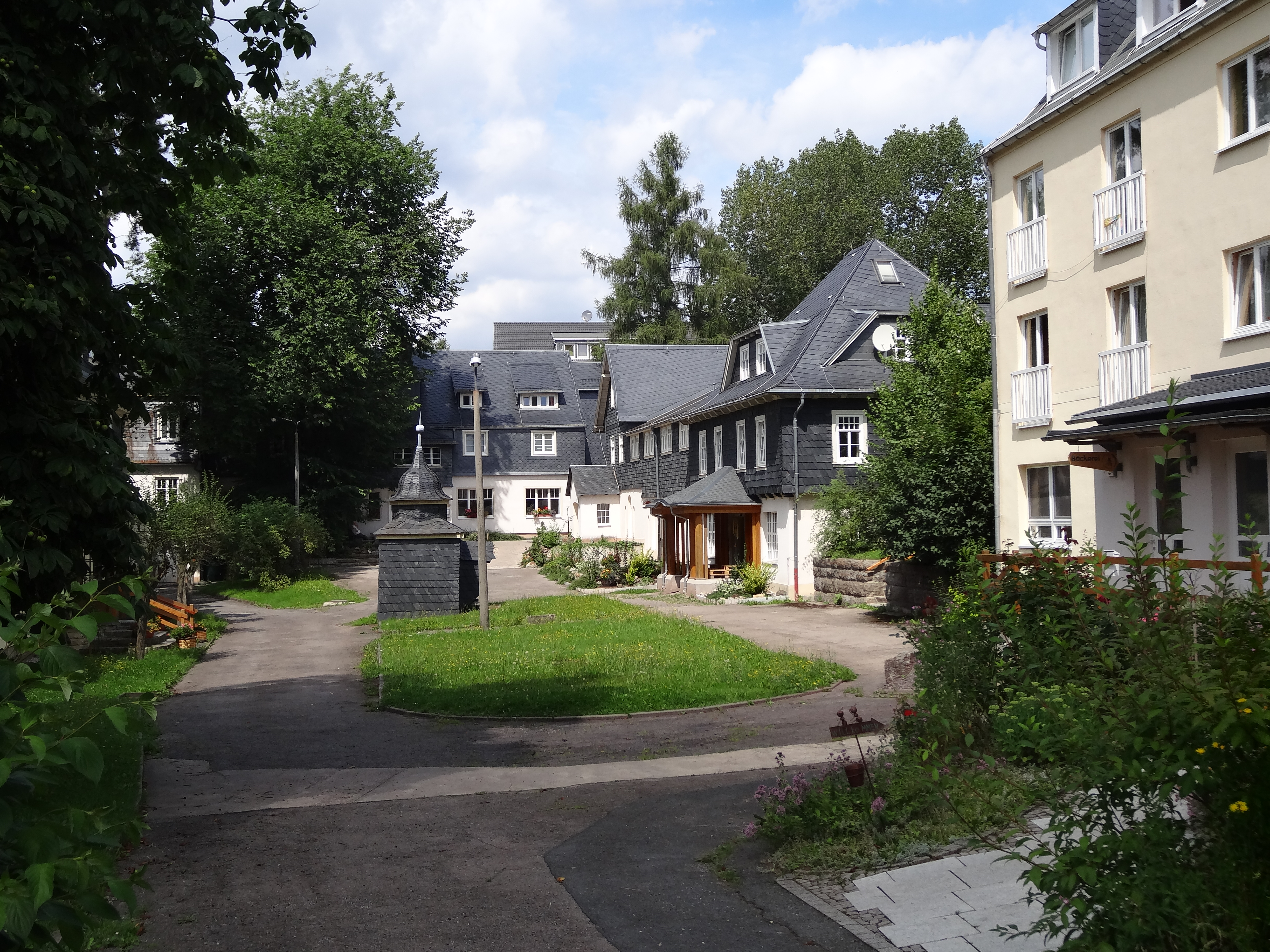 Freie Schulgemeinde Wickersdorf, Saalfelder Höhe, Thuringia, Germany